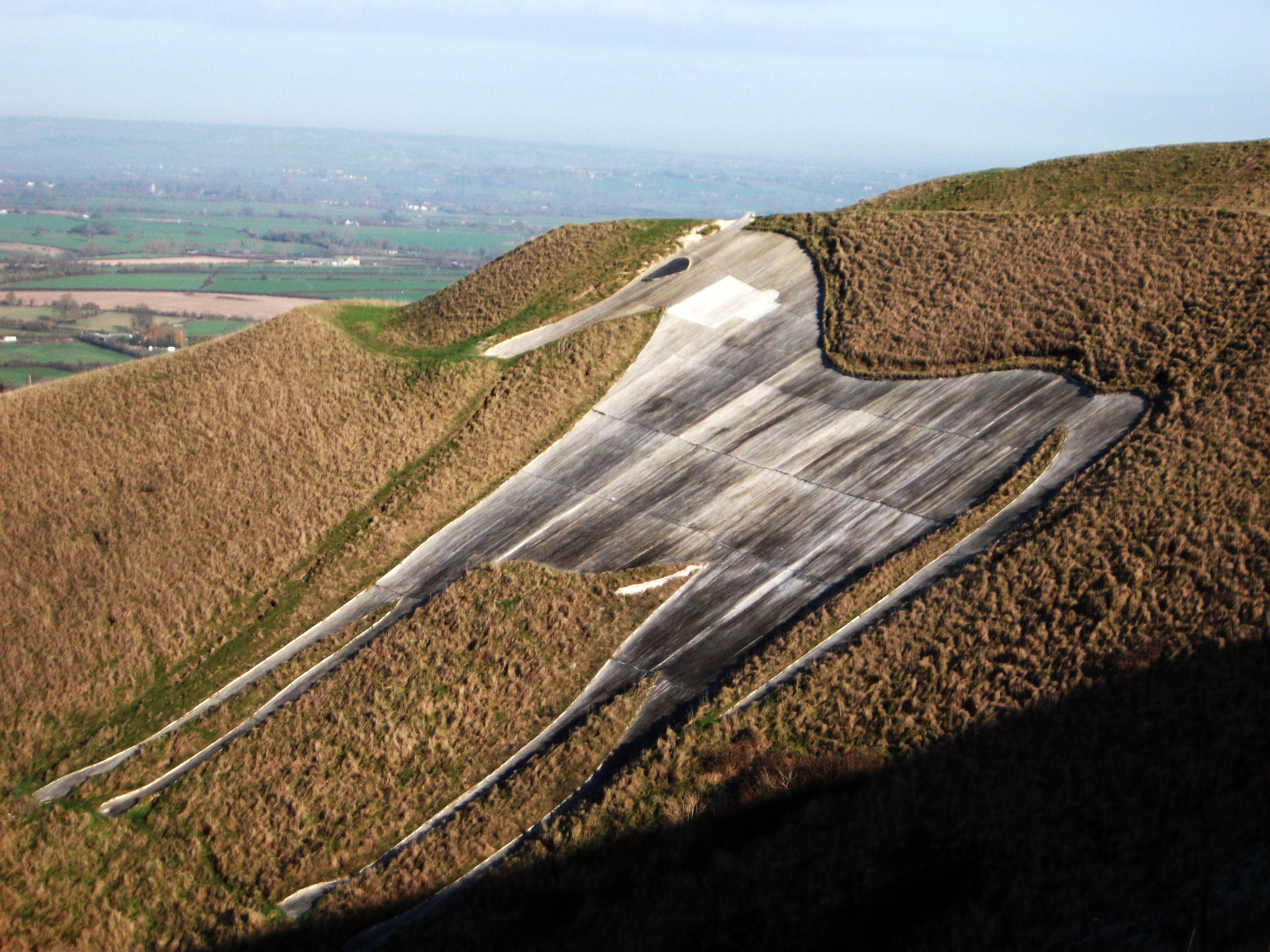 The Westbury White Horse in 2012 following an unsuccessful attempt at restoration in 2007